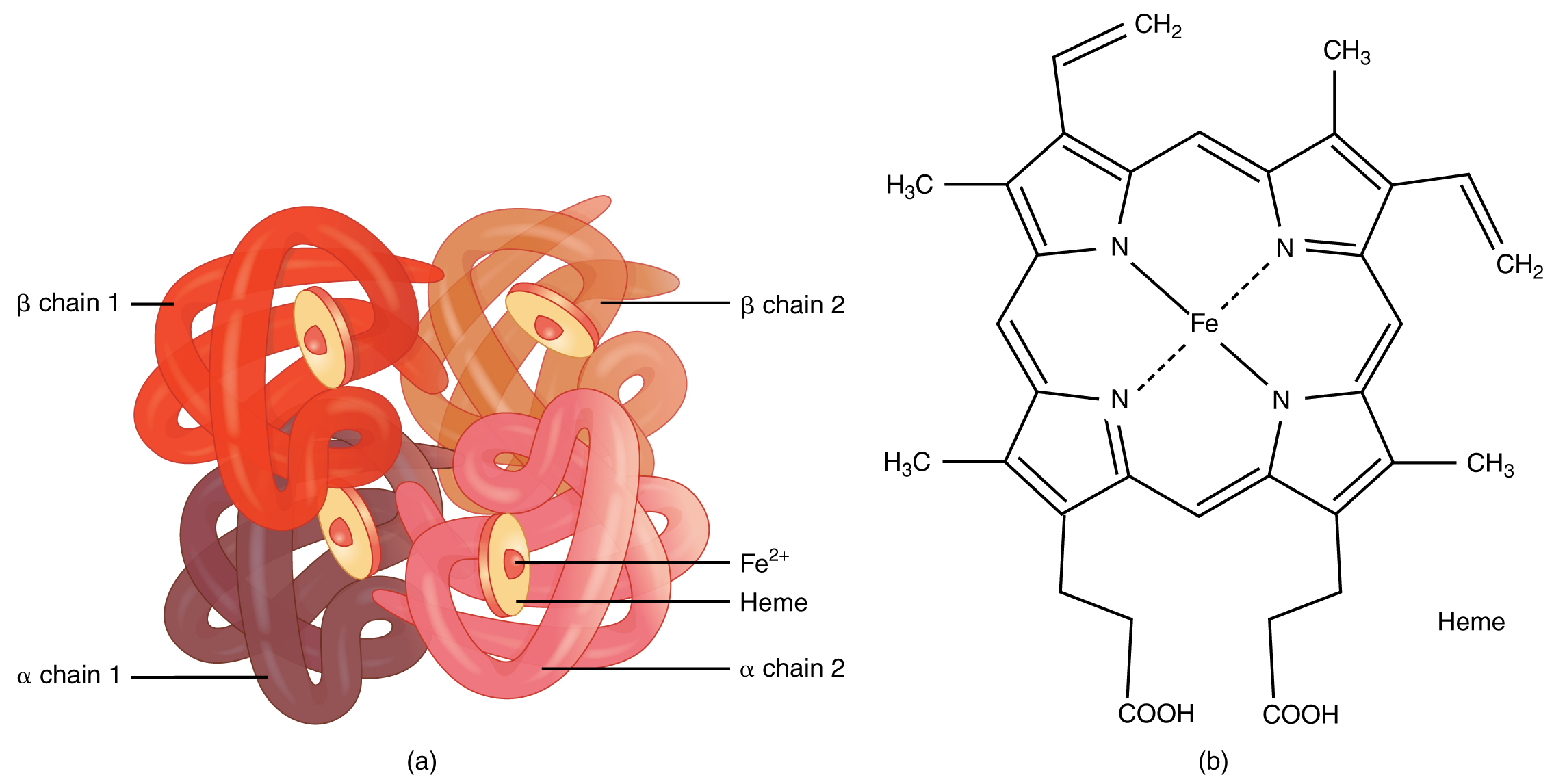 Illustration from Anatomy & Physiology, Connexions Web site. Jun 19, 2013.